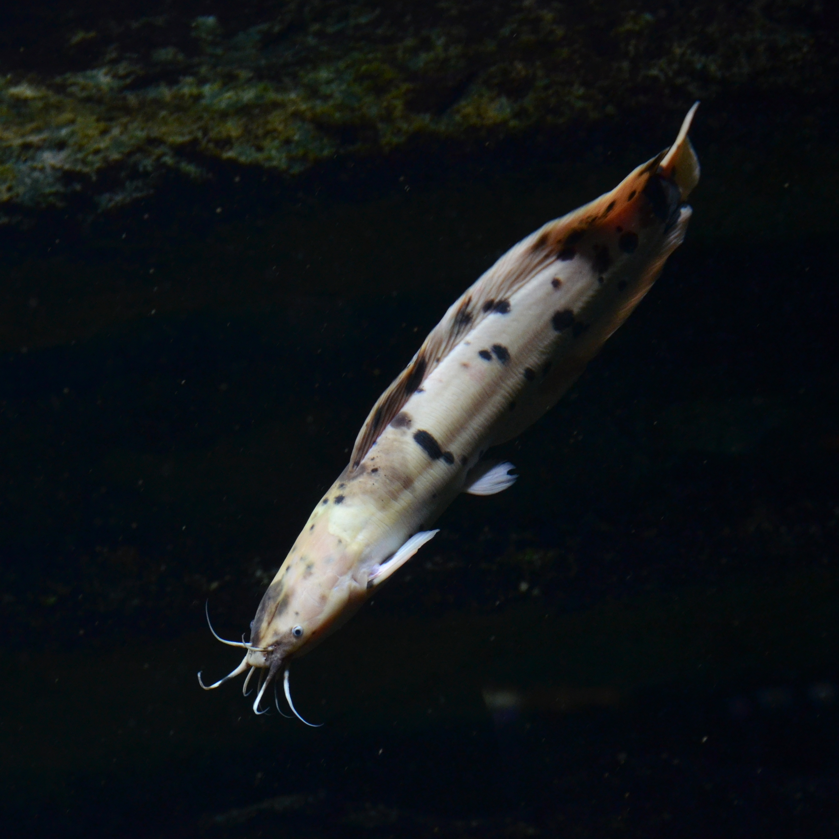 Walking catfish ( Clarias batrachus ). Aquarium tropical du Palais de la Porte Dorée, in Paris.